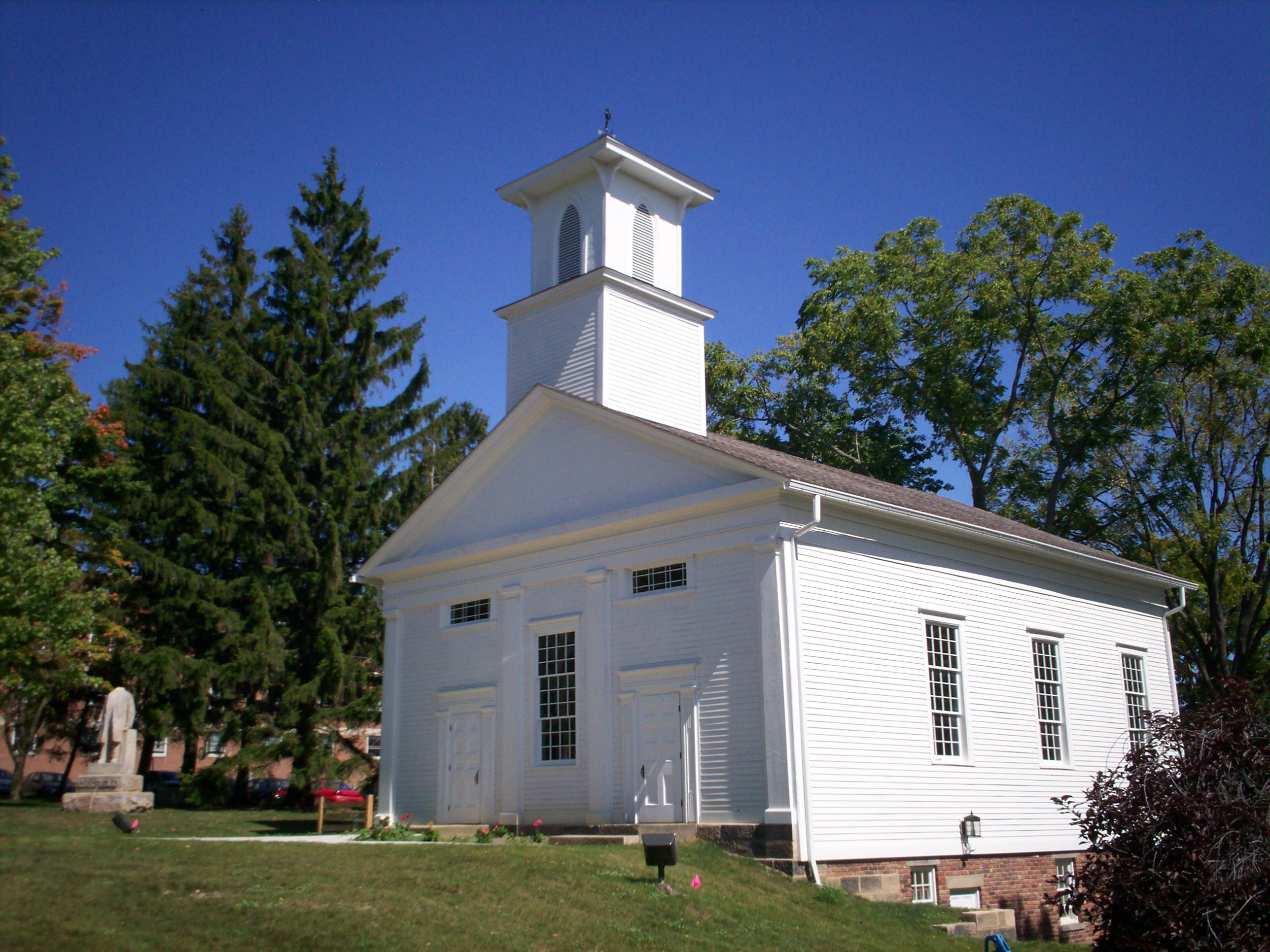 The Garfield Institute for Public Leadership at Hiram College in Hiram, Ohio. The Institute is housed in the 1842 Mecca Church, which was recently moved to its current site. On the left, the headless statue of James A. Garfield can be seen.